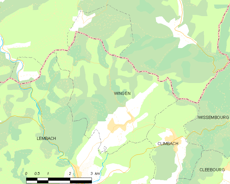 Map of French municipality